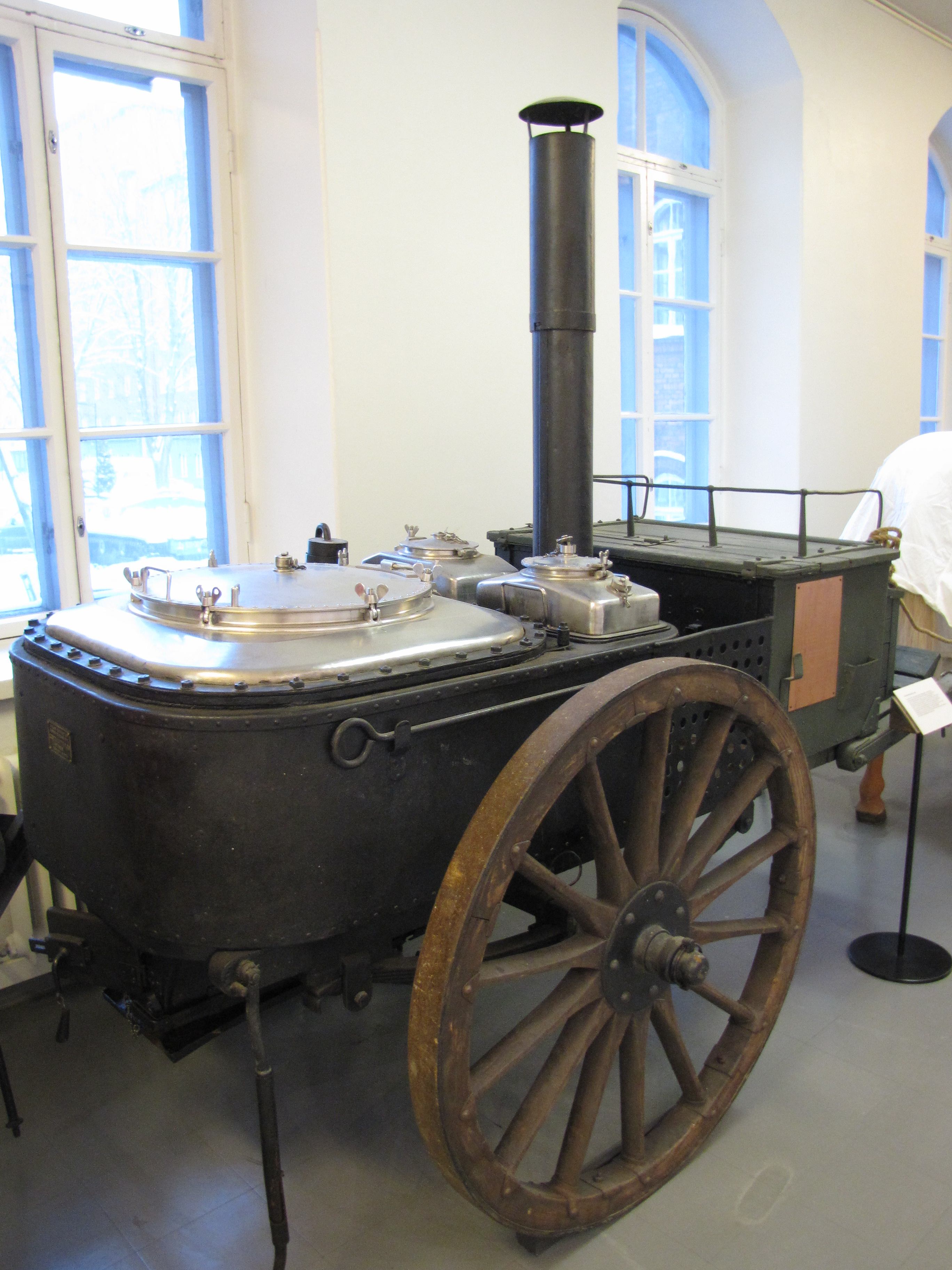 Finnish field kitchen model 1929. Photographed in the "Winter War - 70 years" exhibition in the Military Museum of Finland.